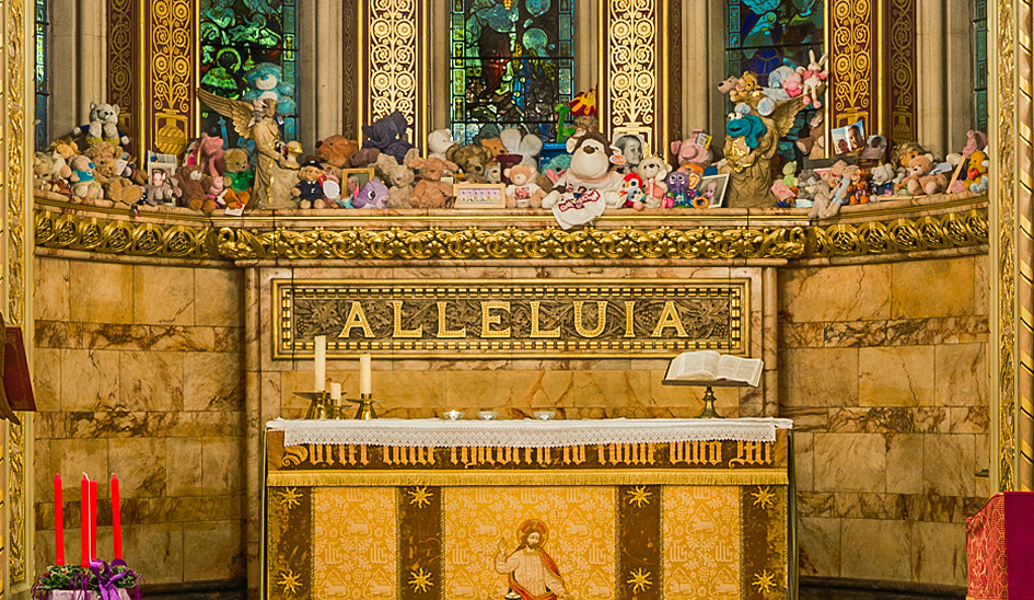 The interior of St Christopher's Chapel within Great Ormond St Childrens Hospital in London, England.